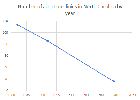 Number of abortion clinics in North Carolina by year. Data is from articles linked at